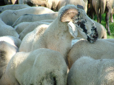 Bagnolese's doll